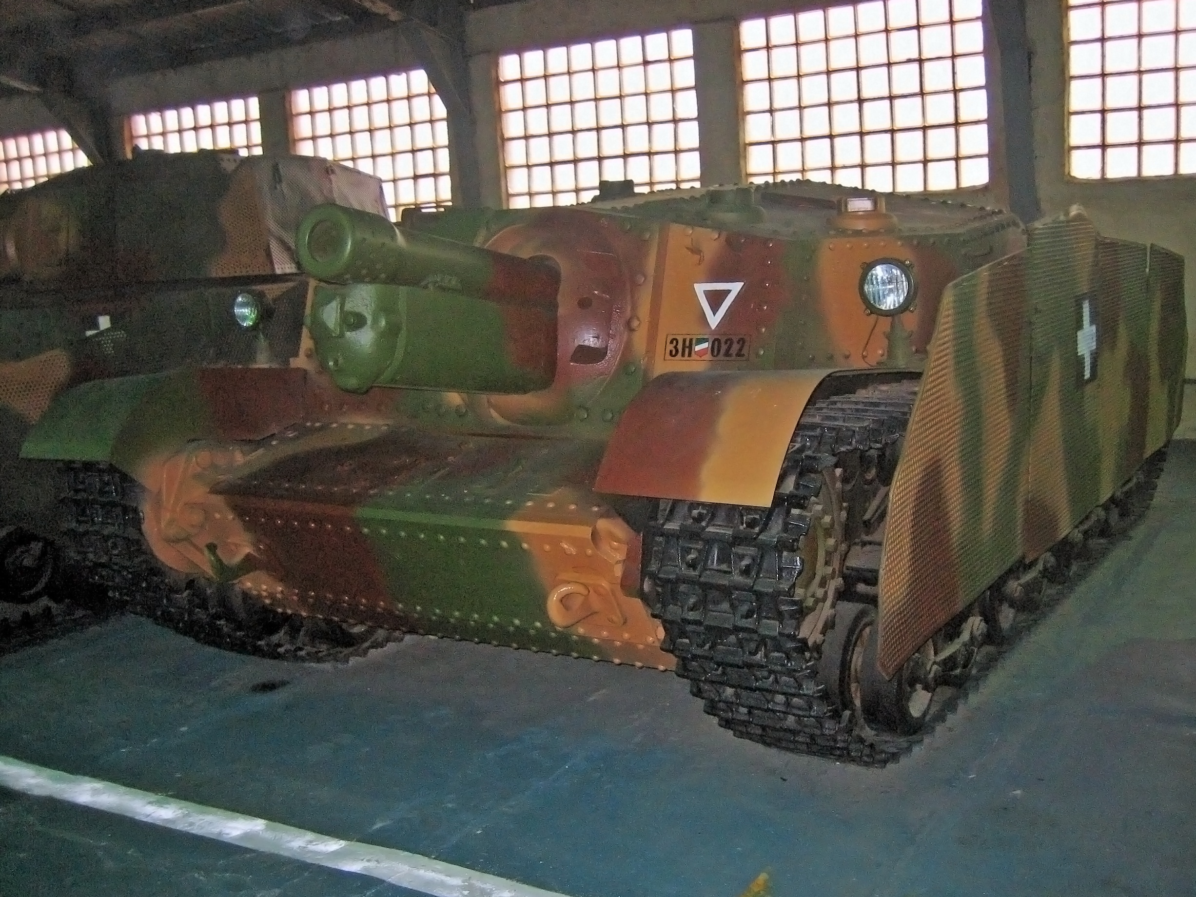 Hungarians Zrinyi self-propelled gun at Kubinka Tank Museum